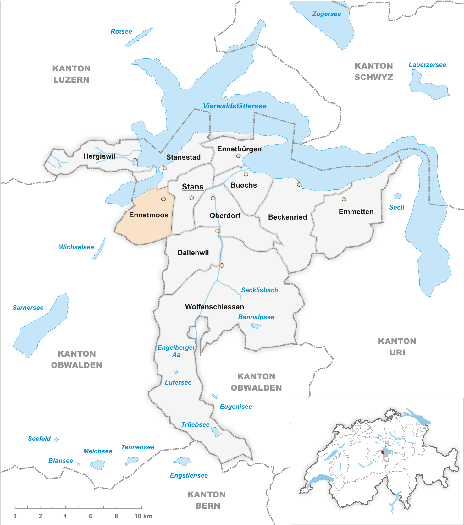 Municipality Ennetmoos